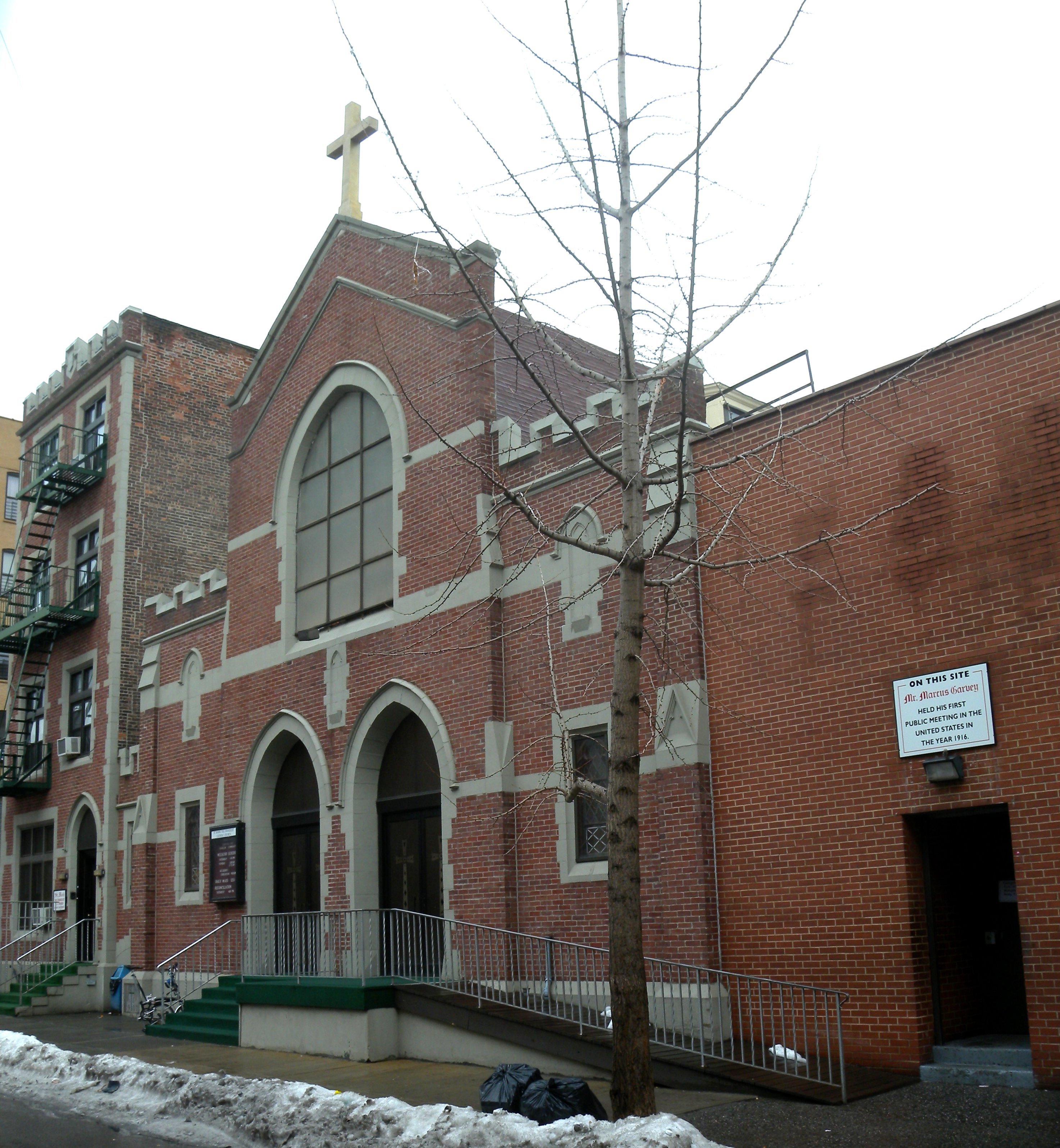 Looking north across W138th St at St. Mark the Evangelist's Church (New York City) on a rainy midday. ZIP 10037.